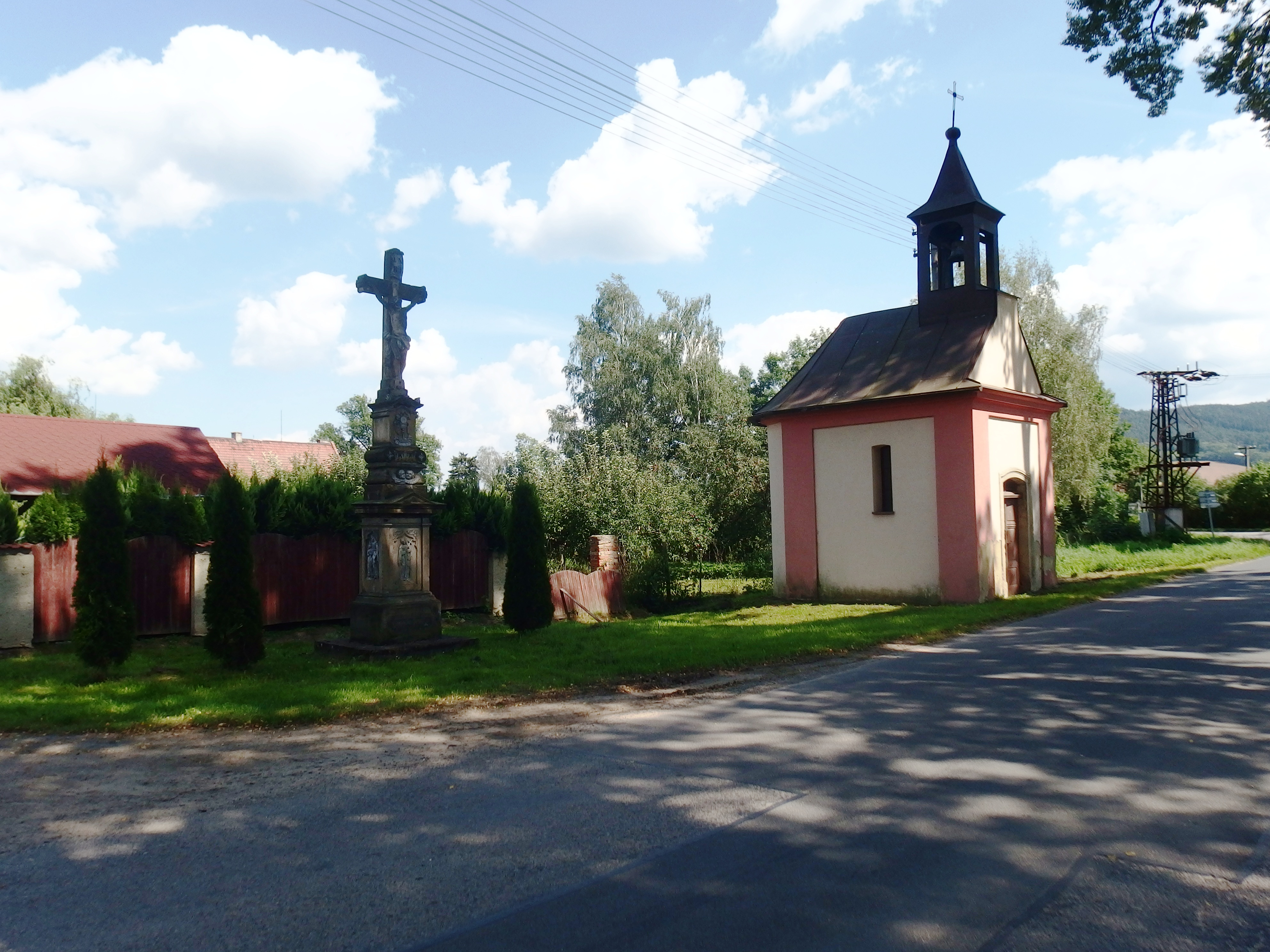 Městečko Trnávka, Svitavy District, Czech Republic, part Mezihoří.